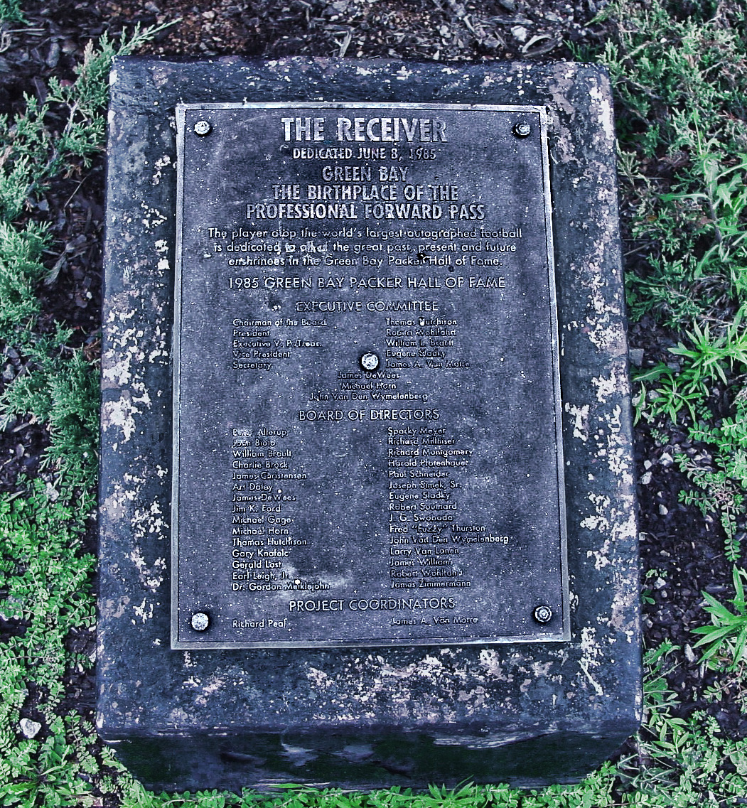 Original Dedication Plaque for the Receiver Statue located outside the old Packers Hall of Fame.